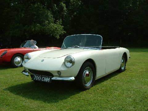 Berkeley Bandit